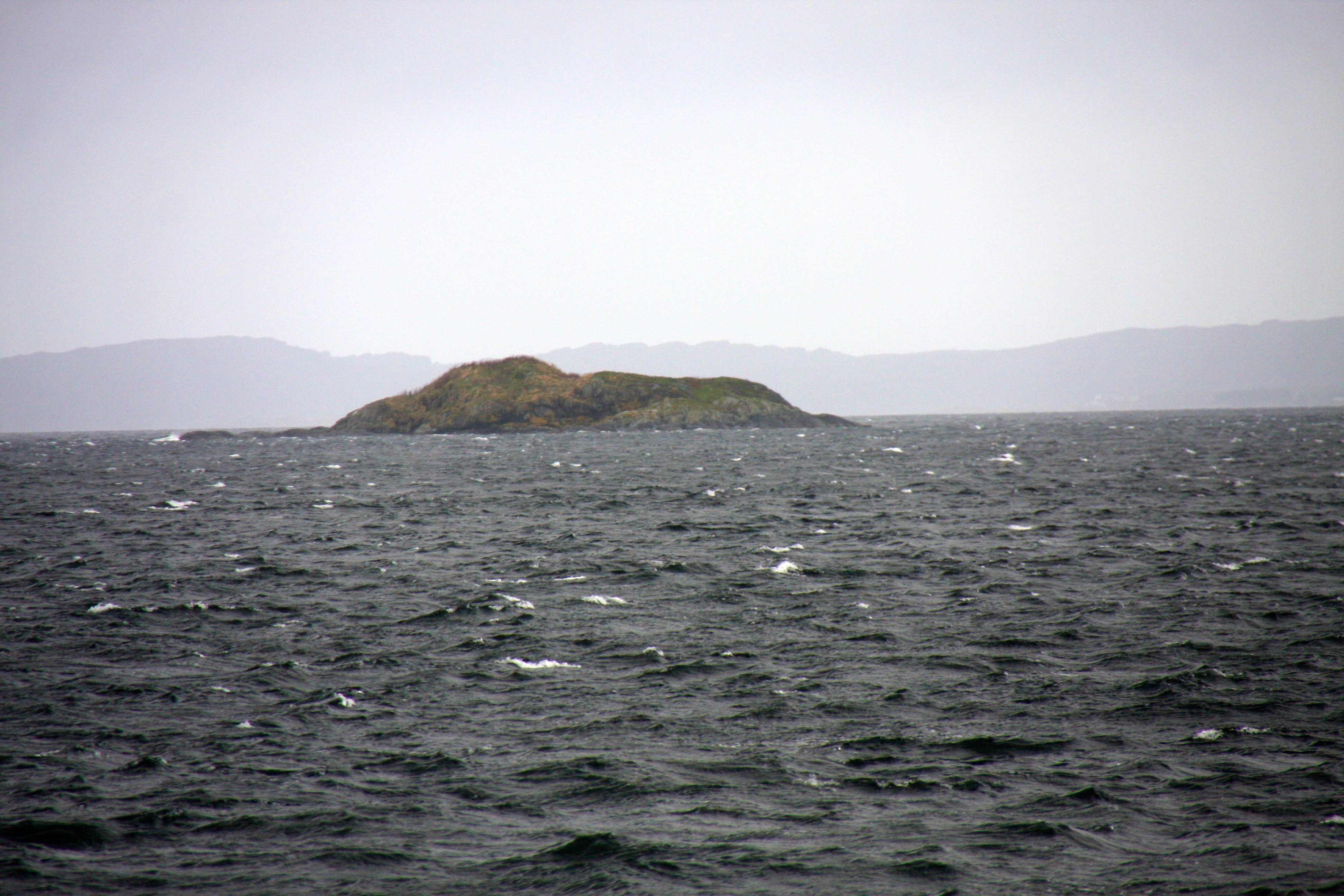 Fallebø in Gulen municipality, Norway.